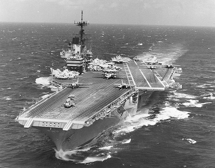 The U.S. Navy aircraft carrier USS Independence (CV-62) at sea during the later 1980s or early 1990s.